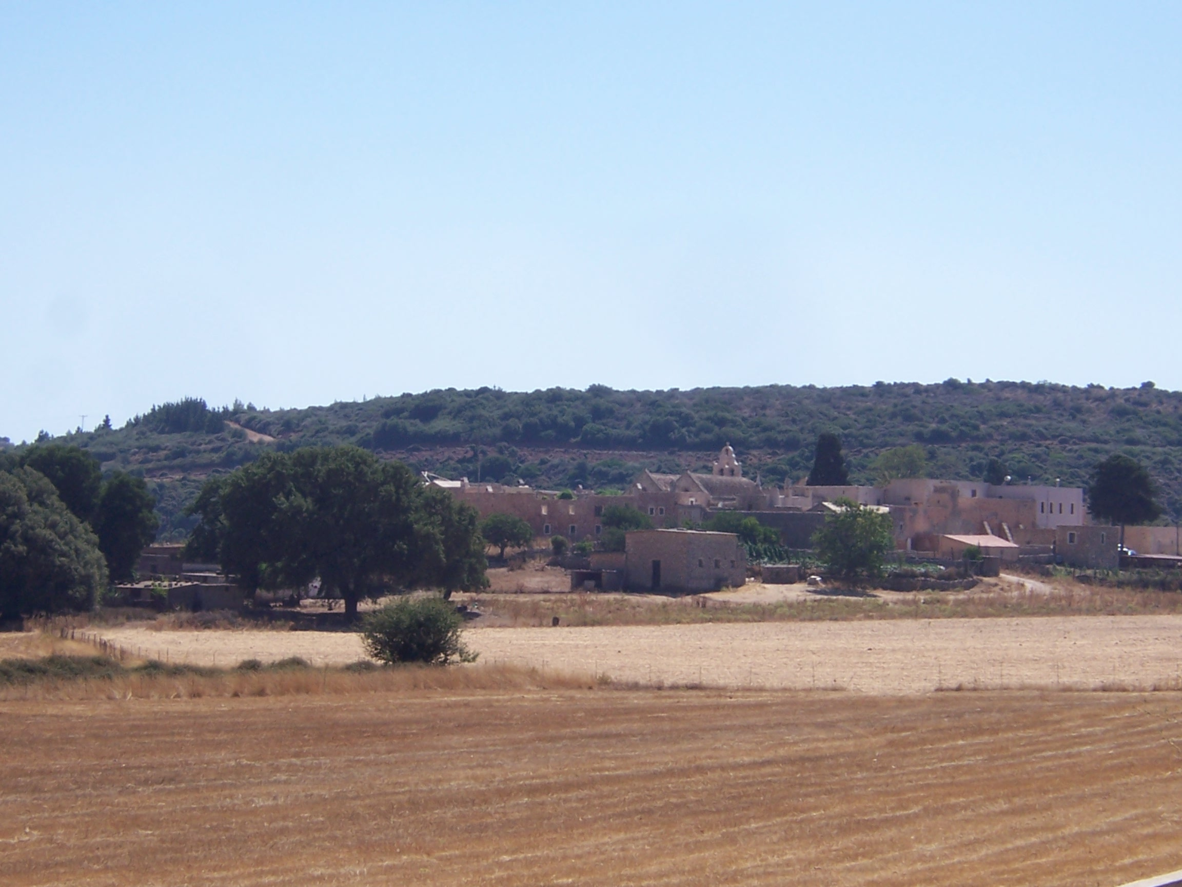 Plain of Arkadi (Crete, Greece)